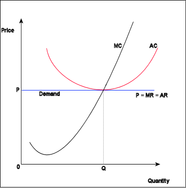 Economics Perfect competition graph